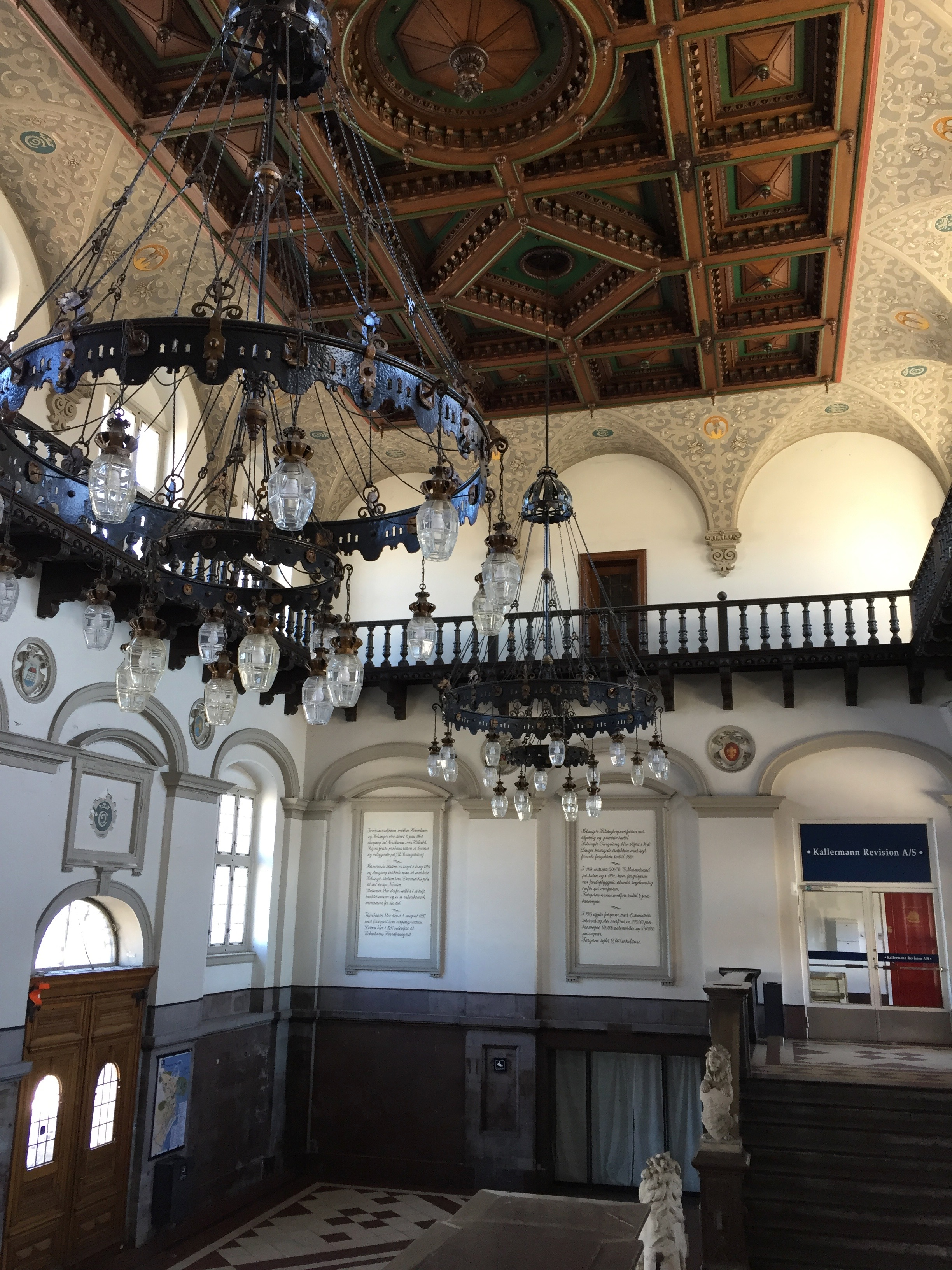 Main lobby of Helsingør railway terminal in Helsingør, Denmark in 2018